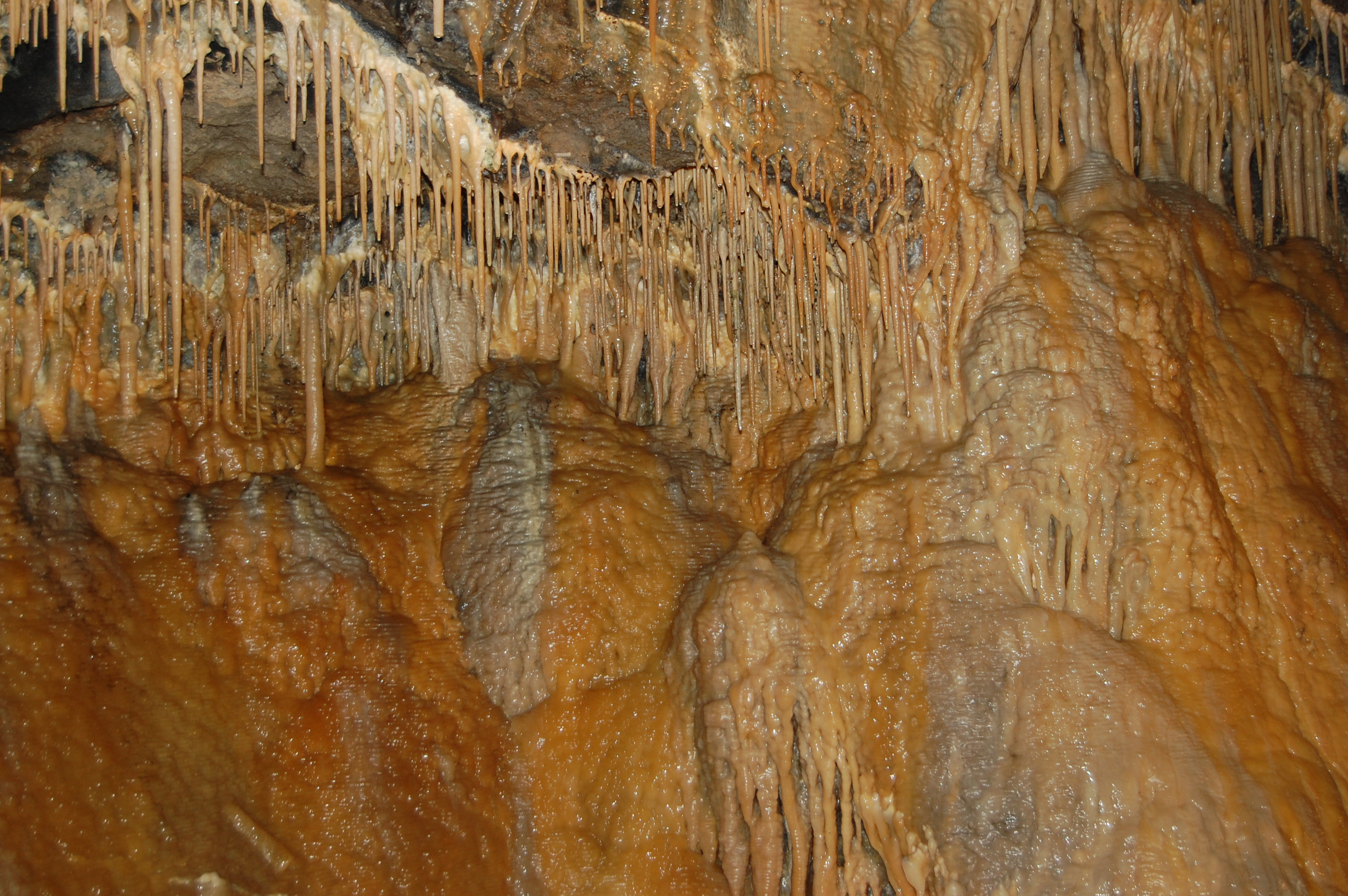 Interior of Treak Cliff Cavern, Derbyshire, England.